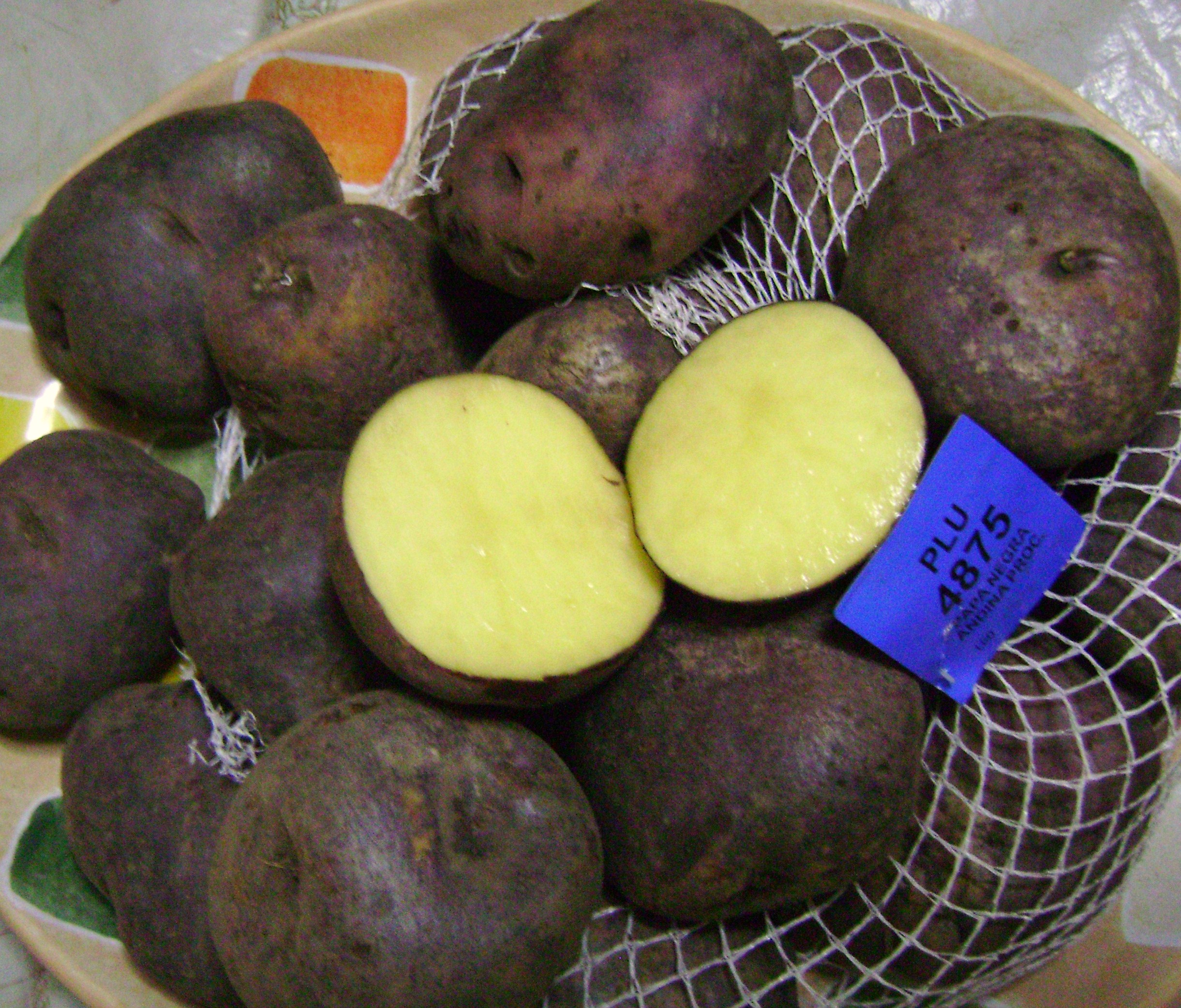 Andean black potato from Peru